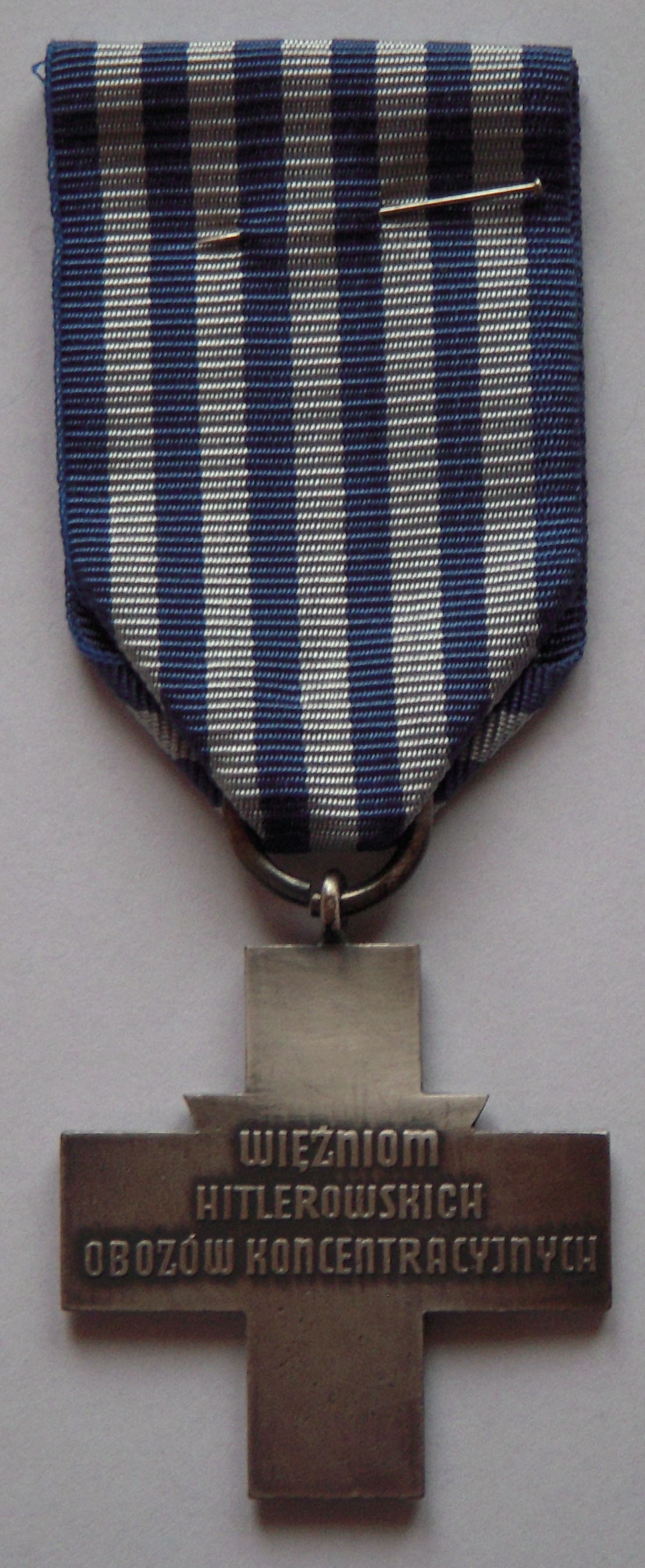 Oswiecim's Cross (decoration for former nazi camp's prisonners)